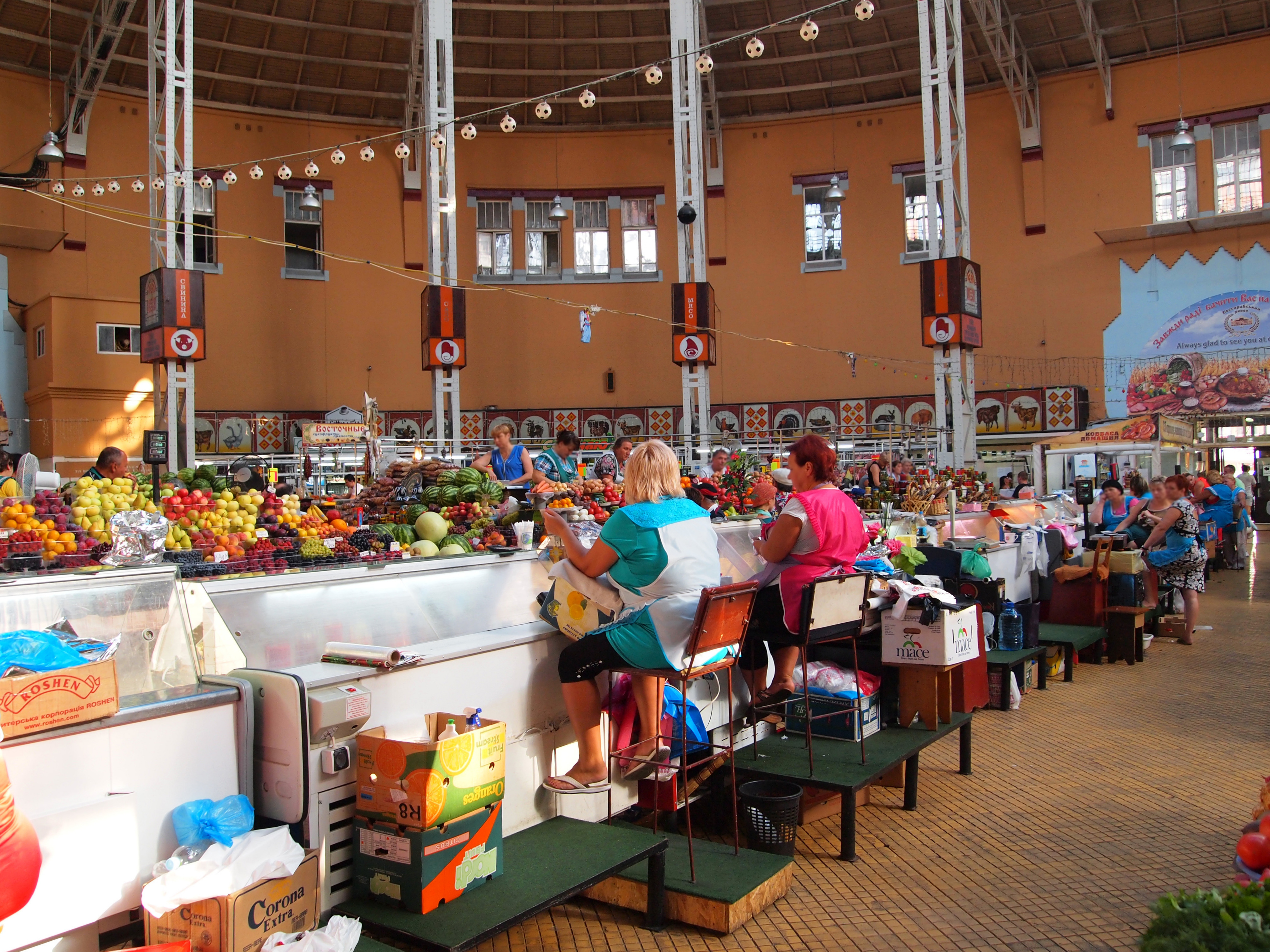 Inside of the Bessarabskyi Market, Kiev. This photograph was taken with an Olympus E-PL1